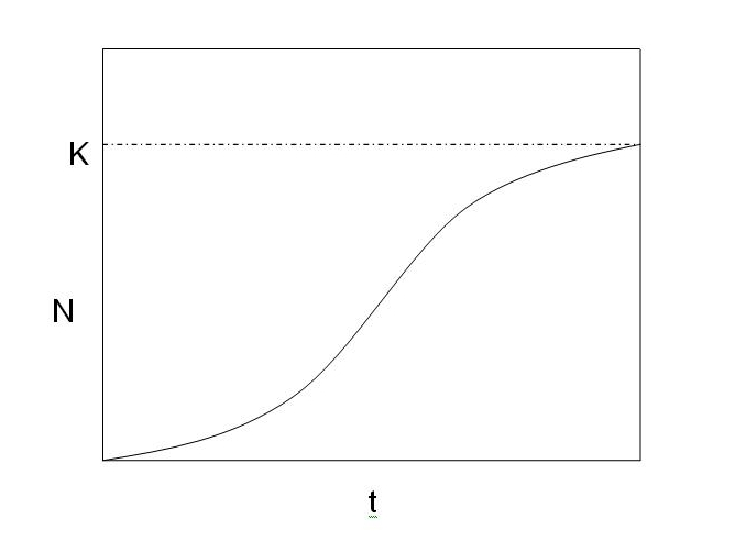 Graph showing a definition of carrying capacity used in basic ecology: population size (N, ordinate) levels off when reaching carrying capacity (K) after a time (t, abscissa). From: Hixon, M.A.; Brian Fath (2008) "Carrying Capacity" in Encyclopedia of Ecology, Oxford: Academic Press, pp. 528-530 Retrieved on 6 March 2009. ISBN: 978-0-08-045405-4.